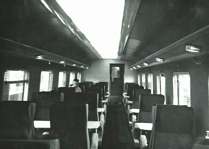 Interior of Pullman Motor Parlour Second (MPSL) No.W60646 built by Metro-Cammell in 1960 for the 8-car Blue Pullman dmu's. At Old Oak Common shed Open Day, 07/67. Scanned photograph taken with a Kowa SET.